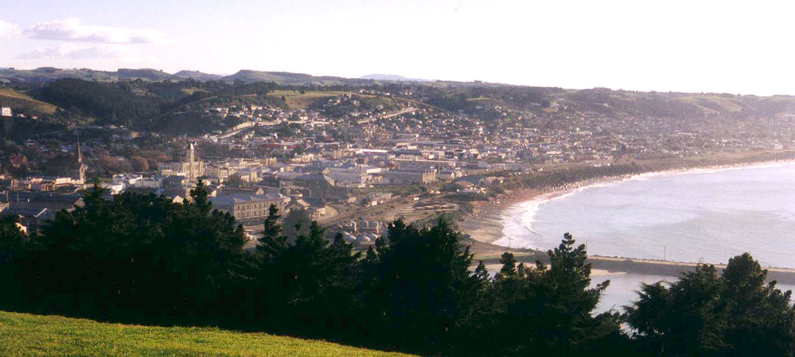 View of Oamaru, New Zealand, from above the southern end of the town